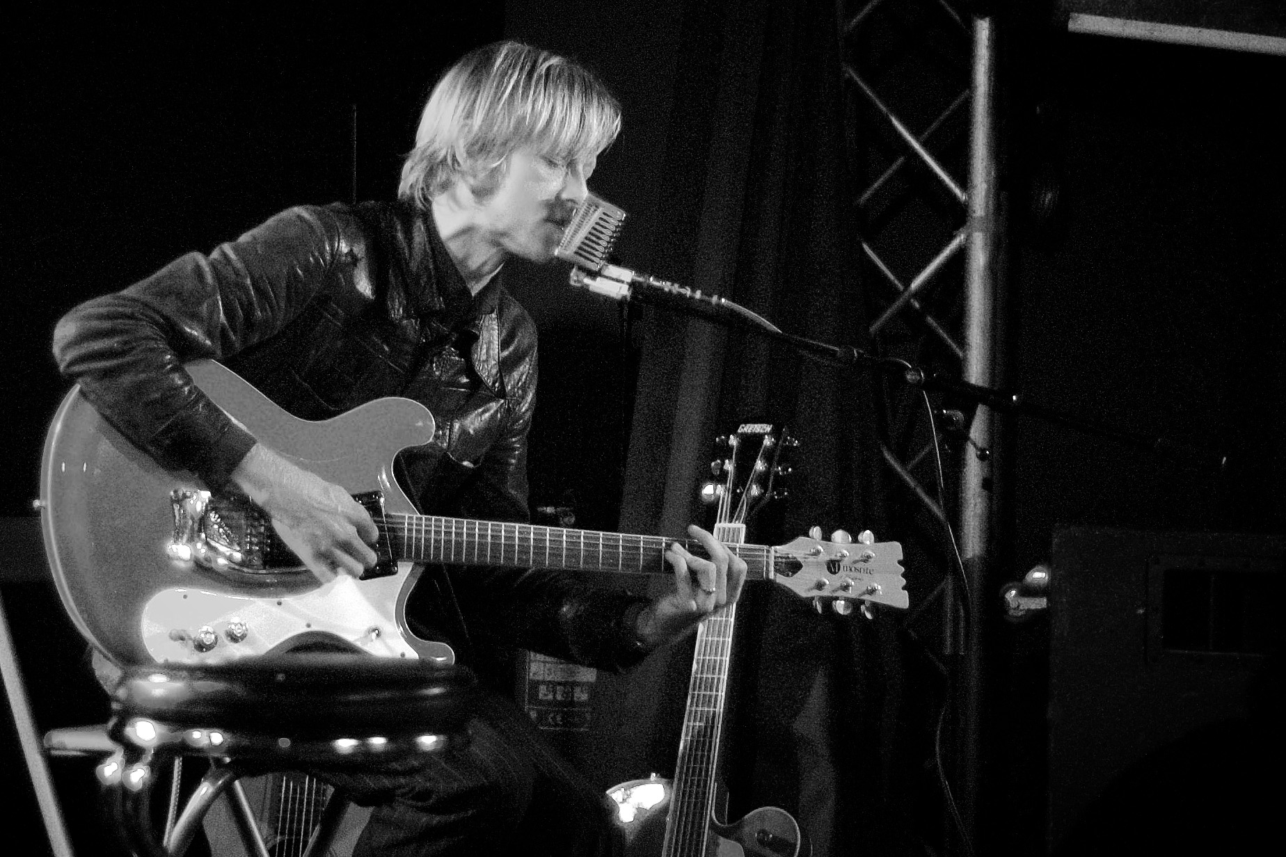 David Eugene Edwards of 16 Horsepower/Woven Hand performing solo at Debaser in Stockholm, Sweden.